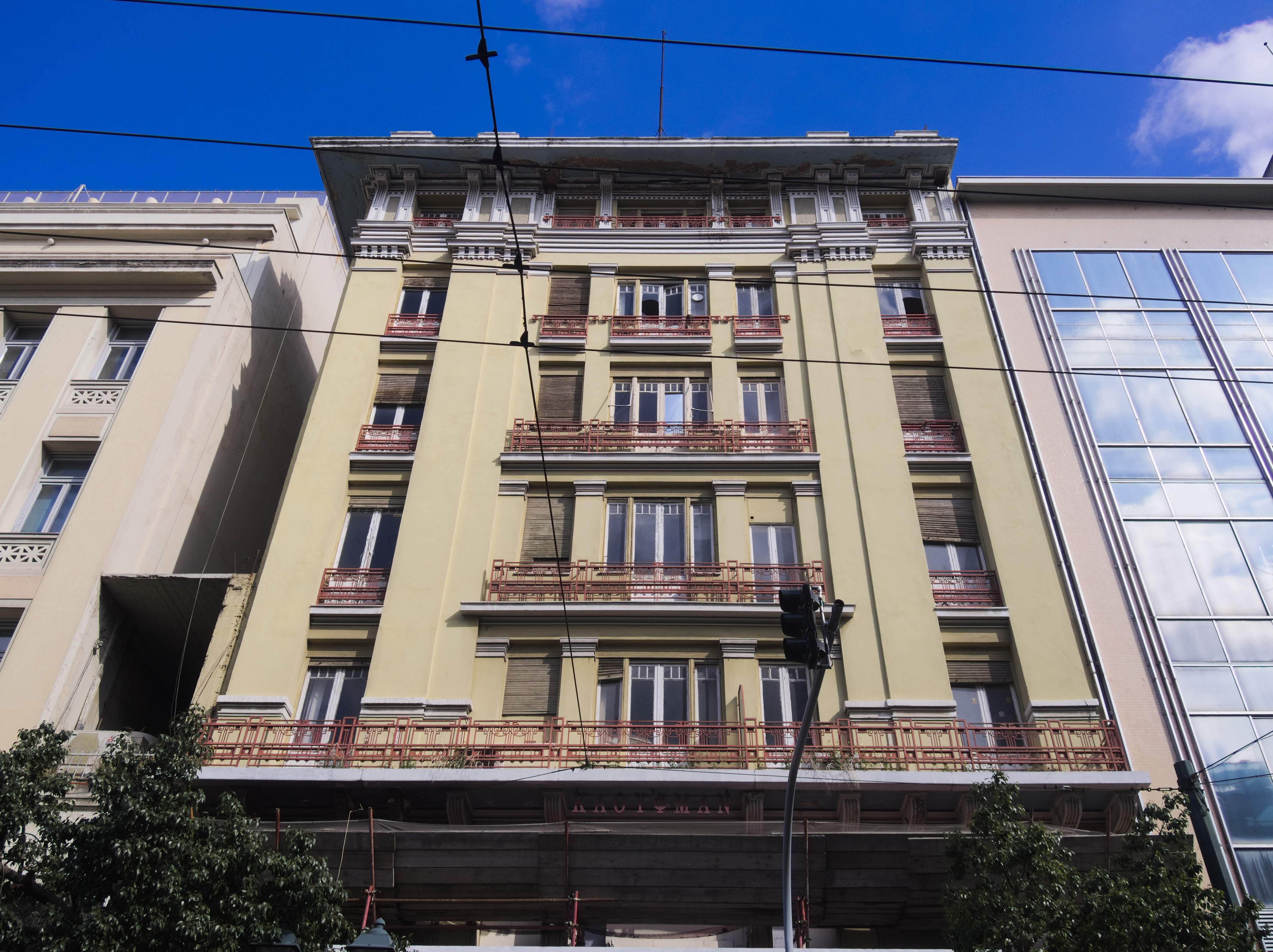 Efesios mansion, Stadiou 28, Athens. Built in 1928 in the designs of Vasileios Tsagris (1882-1941)